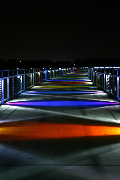 Walk bridge on Kruidenier Trail going over Grays Lake in Grays Lake Park, Des Moines, IA.